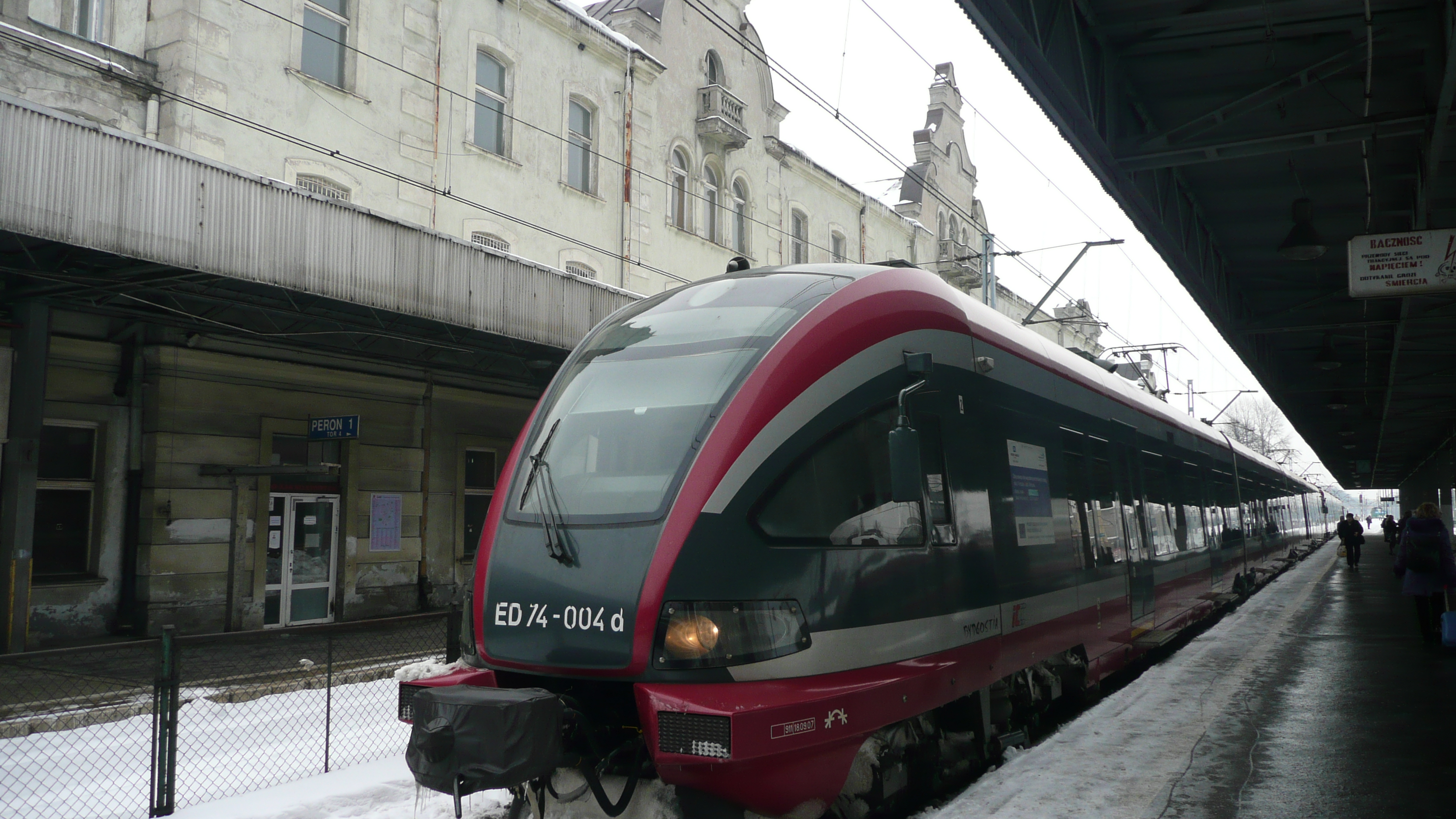 Regional Express Train Bydgostia in Łódź